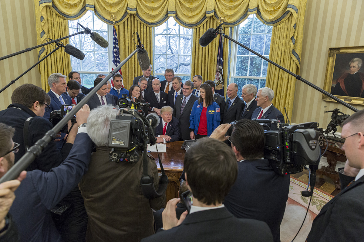 President Donald Trump talks to press, Tuesday, March 21, 2017, before signing S.422, the National Aeronautics and Space Administration Transition Authorization Act, in the Oval Office. (Official White House Photo by Benjamin Applebaum)